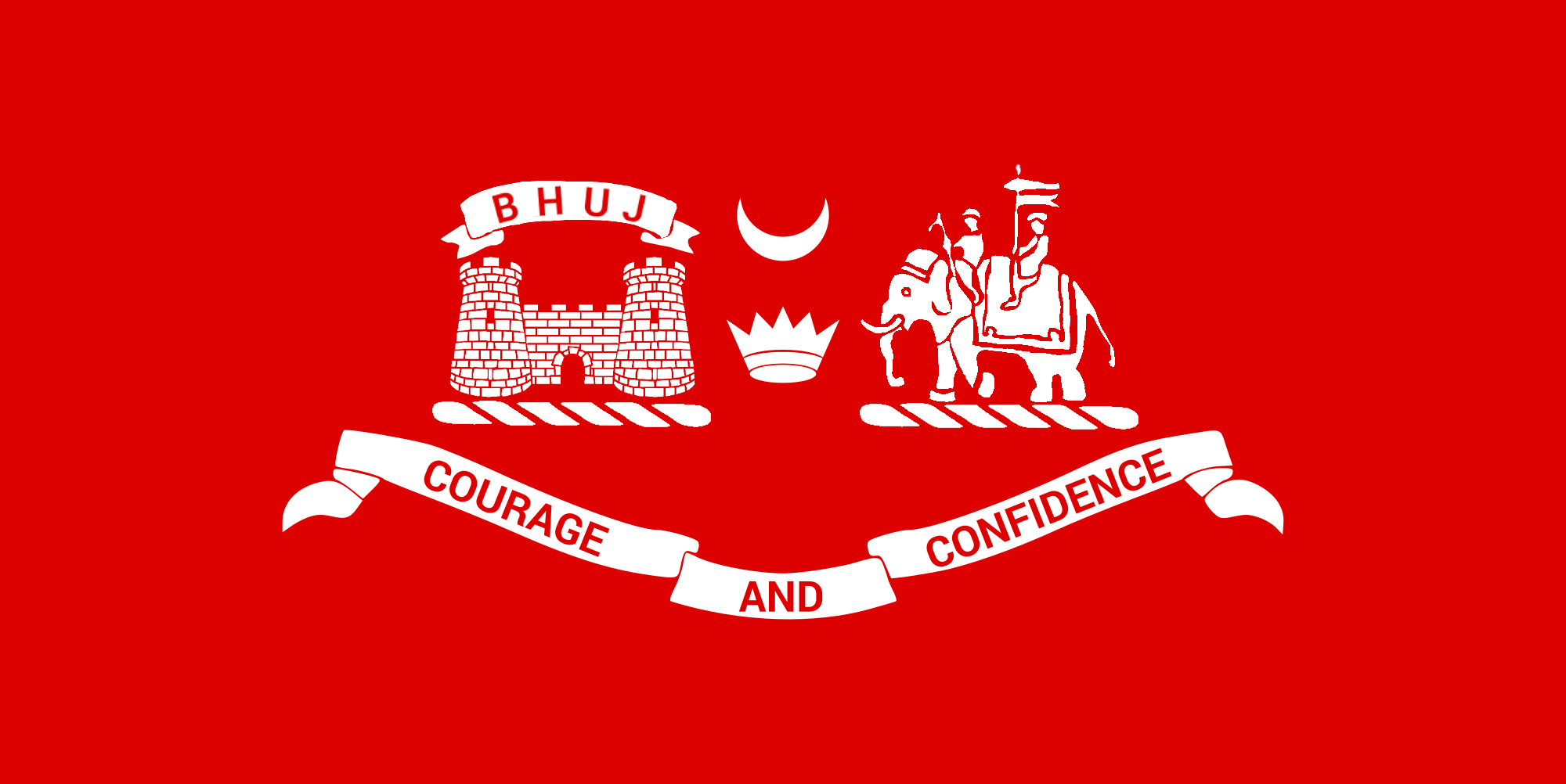 Flag of Cutch state